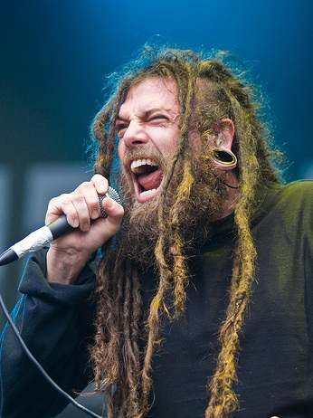 Chris Barnes in a concert